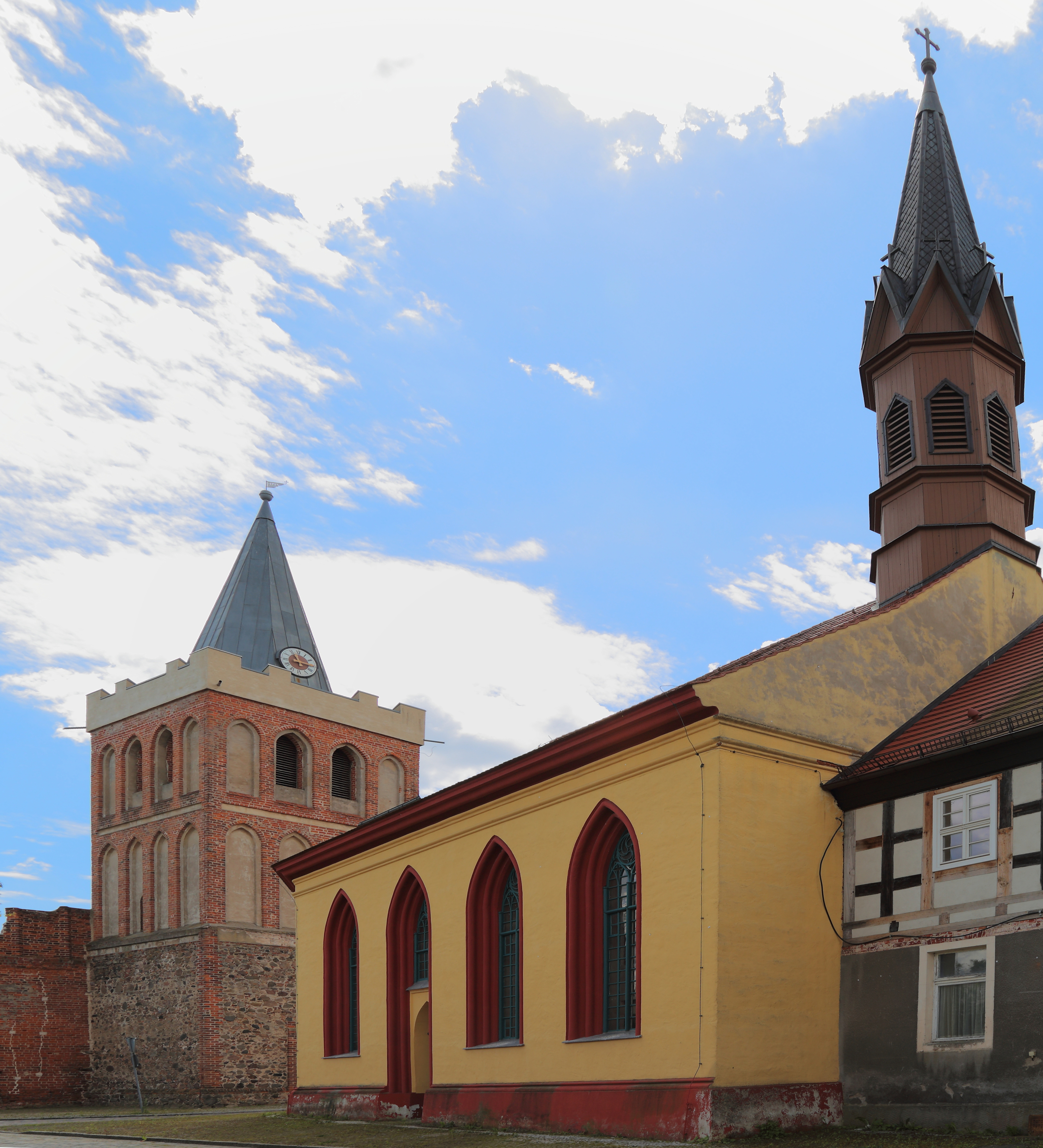 The Country Church (Landkirche) and the City Church (Stadtkirche) are the two Protestant churches in the city centre of Lieberose, Landkreis Dahme-Spreewald, Brandenburg, Germany. Both churches are situated at Market [Street] (Markt) and listed cultural heritage monuments. The City Church was almost completely destroyed during a bombing at the end of World War II.